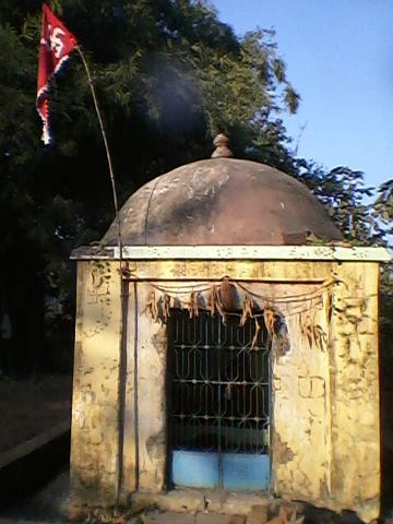 Vachhavad6